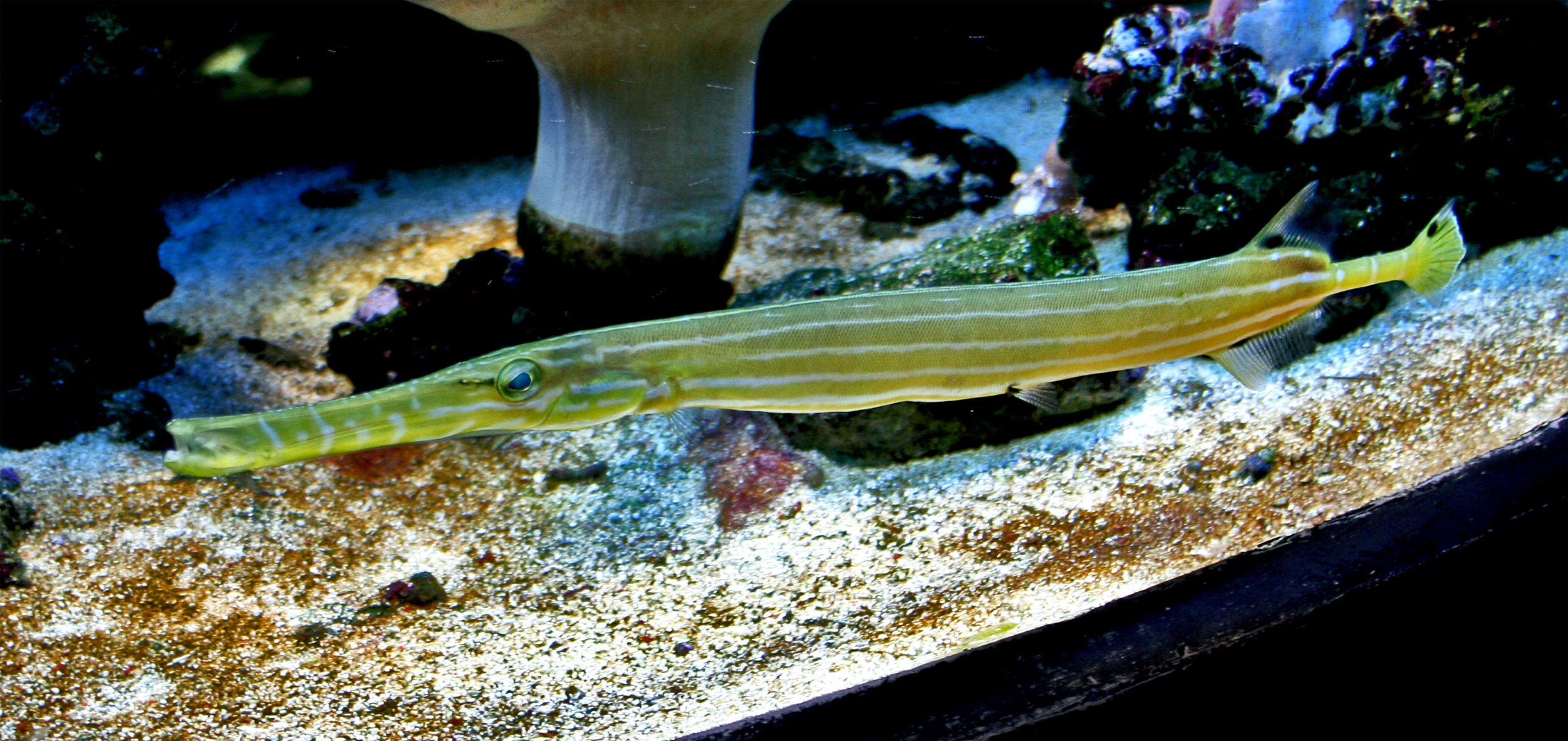 Fish aulostomus chinensis in Prague sea aquarium, Czech Republic